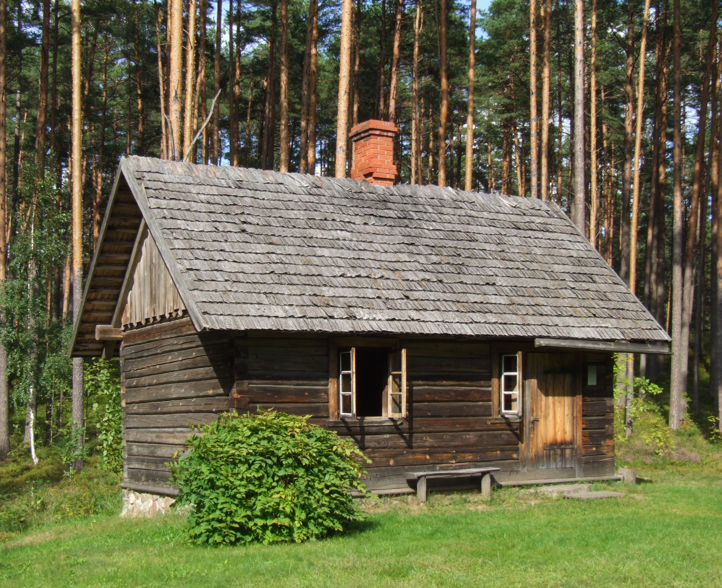 Latvian Ethnographic Open-Air Museum, Riga - bathhouse (banya), built in 1936 in Valka district